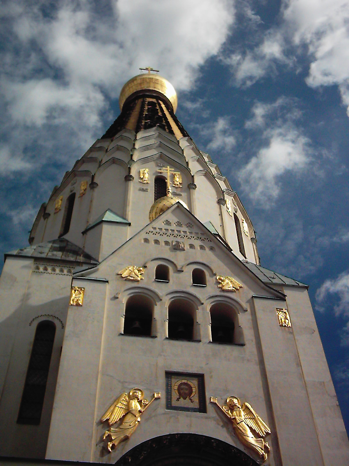 Russian Orthodox Memorial Church, Leipzig